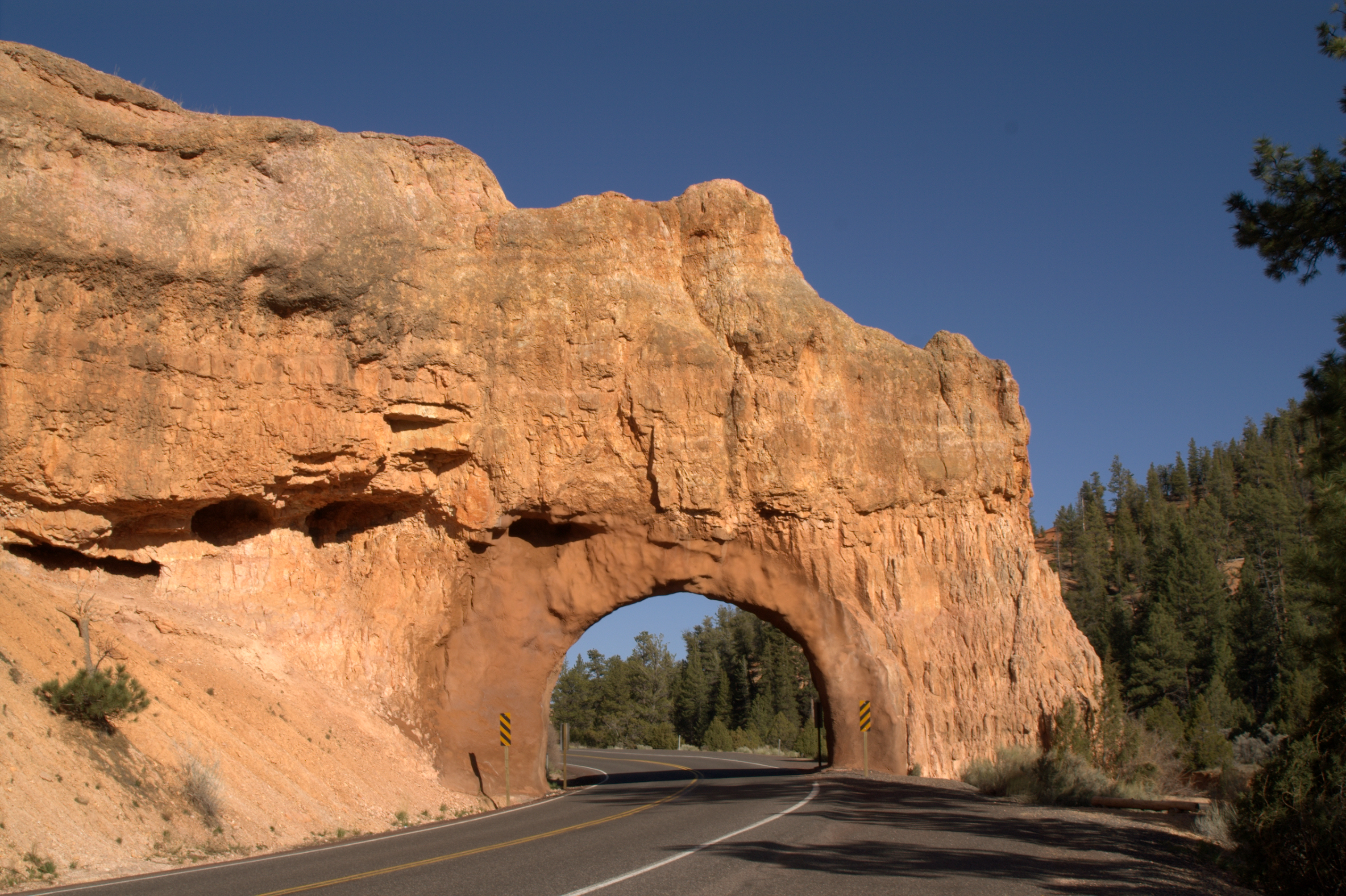 Utah State Route 12 (Highway 12 — A Journey Through Time Scenic Byway). Approximate coordinates N 37 44' 28, W 112 17' 59.